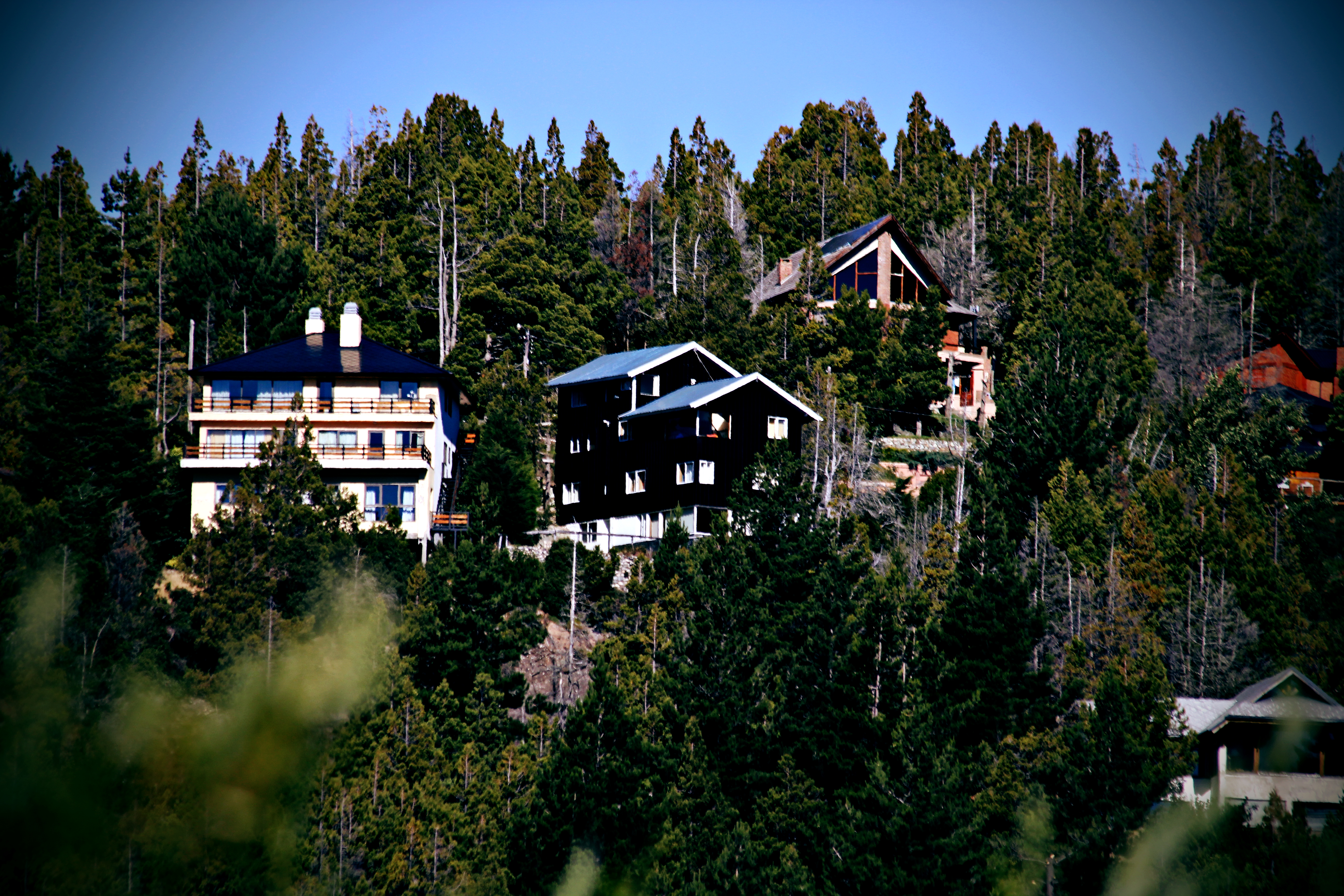 Chalets in San Carlos de Bariloche, Río Negro Province, Argentina.